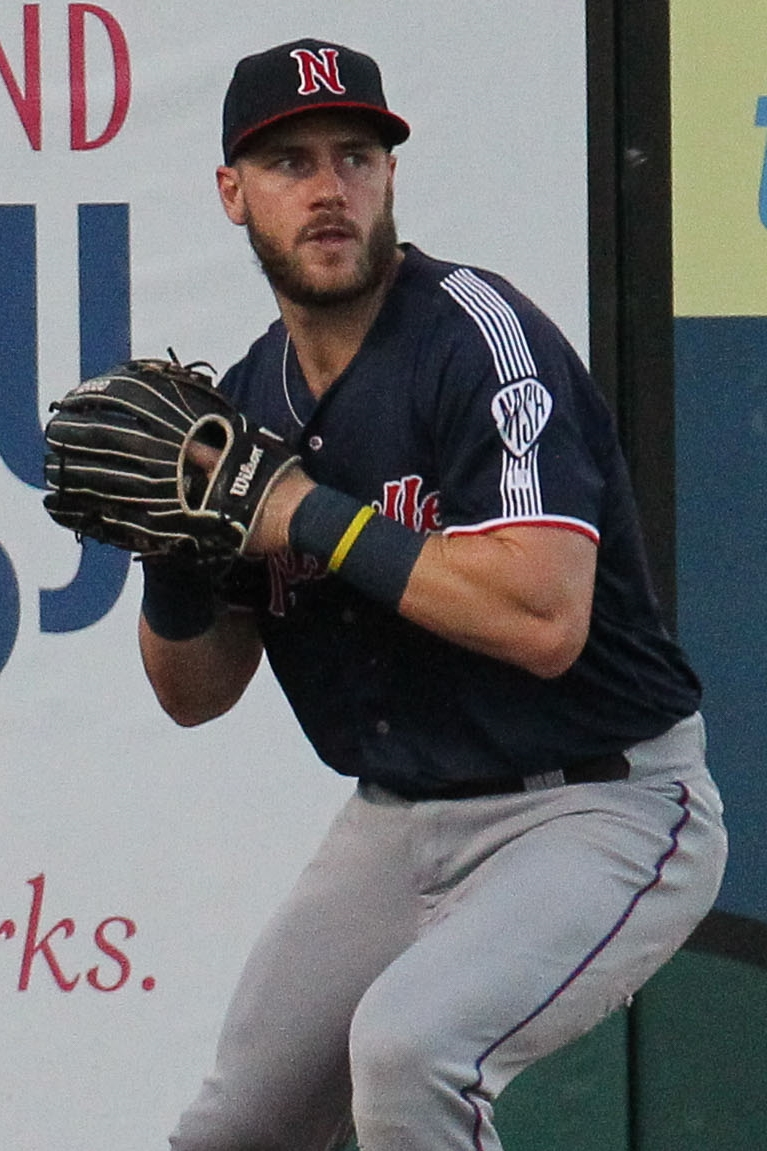 Minda Haas Kuhlmann | 2019 USAGE INSTRUCTIONS: You are welcome to share or publish to your own site or social media account, but you MUST credit me, Minda Haas Kuhlmann. Twitter: @minda33. Instagram: minda.haas